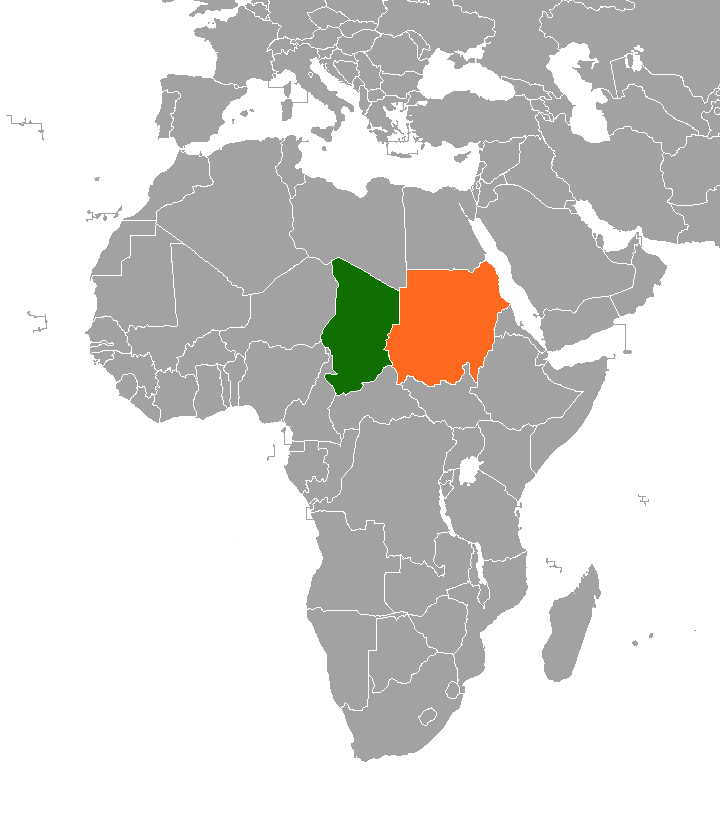 Sudan- Chad Locator map.